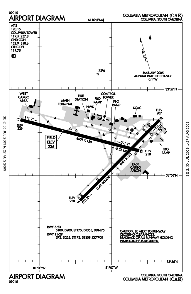 FAA airport diagram for Columbia Metropolitan Airport (CAE) in Columbia, South Carolina, United States.